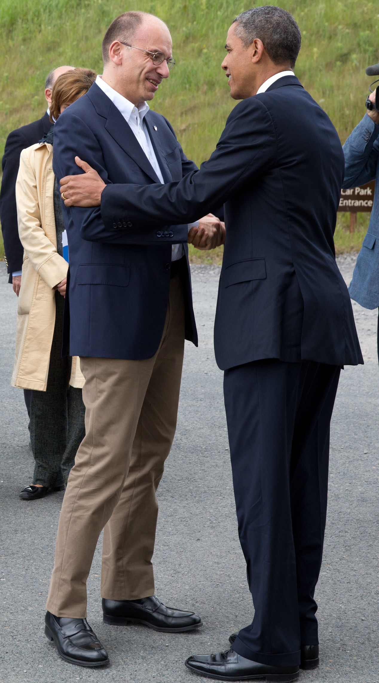 President Barack Obama of the United States greets Prime Minister Enrico Letta of Italy at the G8 Summit in Lough Erne, Northern Ireland on 17 June 2013.